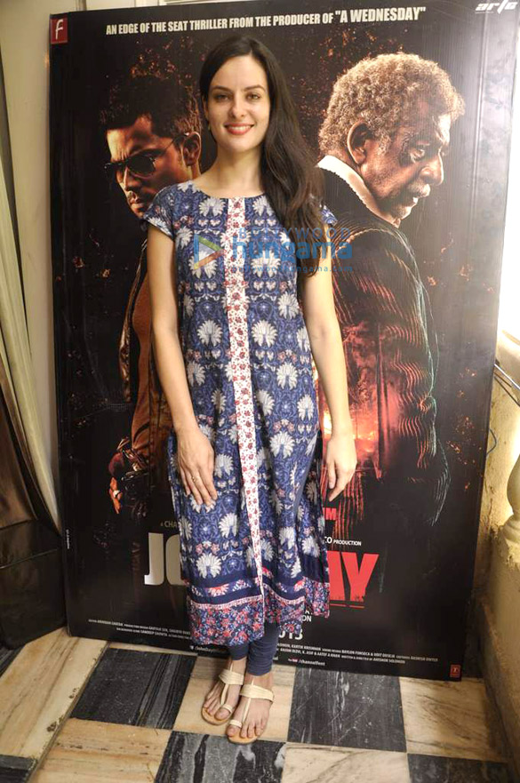 Elena Kazan at the promotions of 'Johnday'